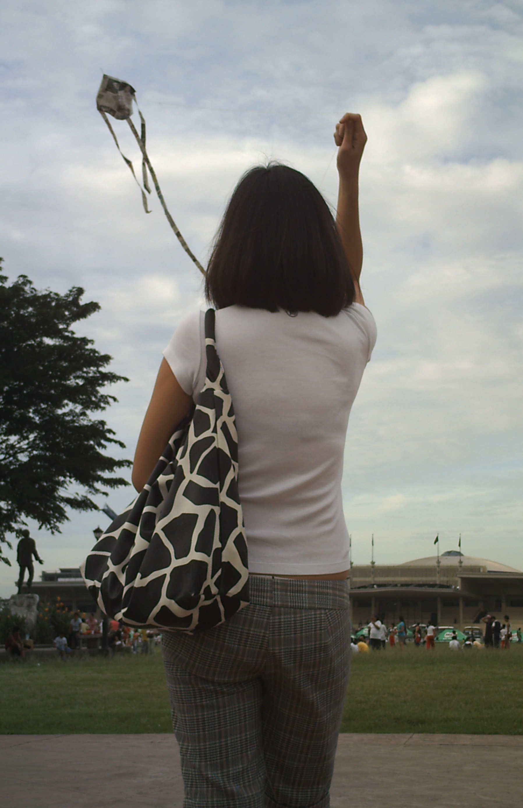 Girl flying a Chapichapi (a type of Japanese kite?)